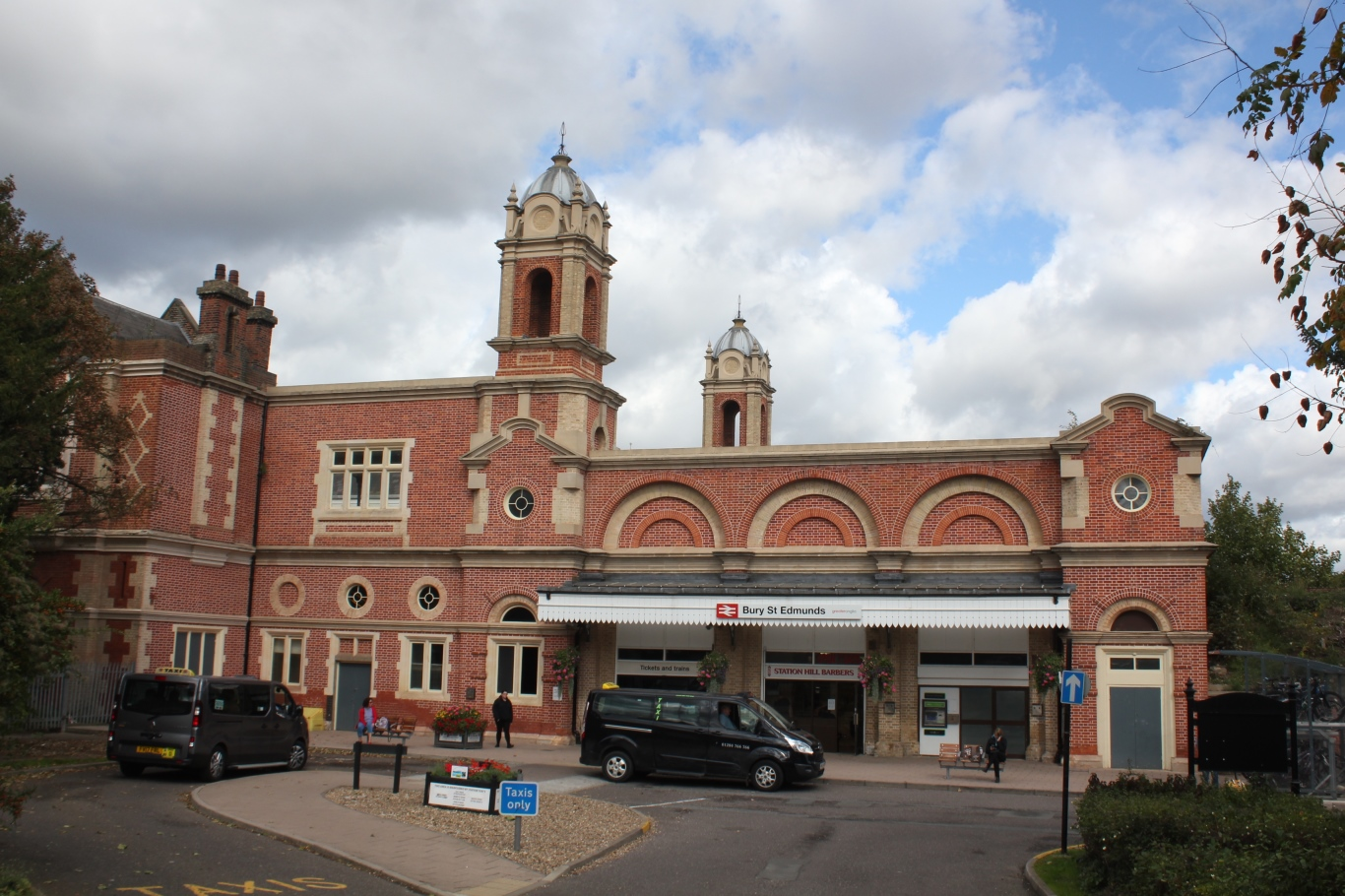 The grand railway station at Bury St Edmunds was opened in 1847 as the terminus of a line from Ipswich. It as later extended westwards but Sancton Wood's baroque building is still in use and rated three stars in Simon Jenkins' Britain's 100 Best railway Stations.